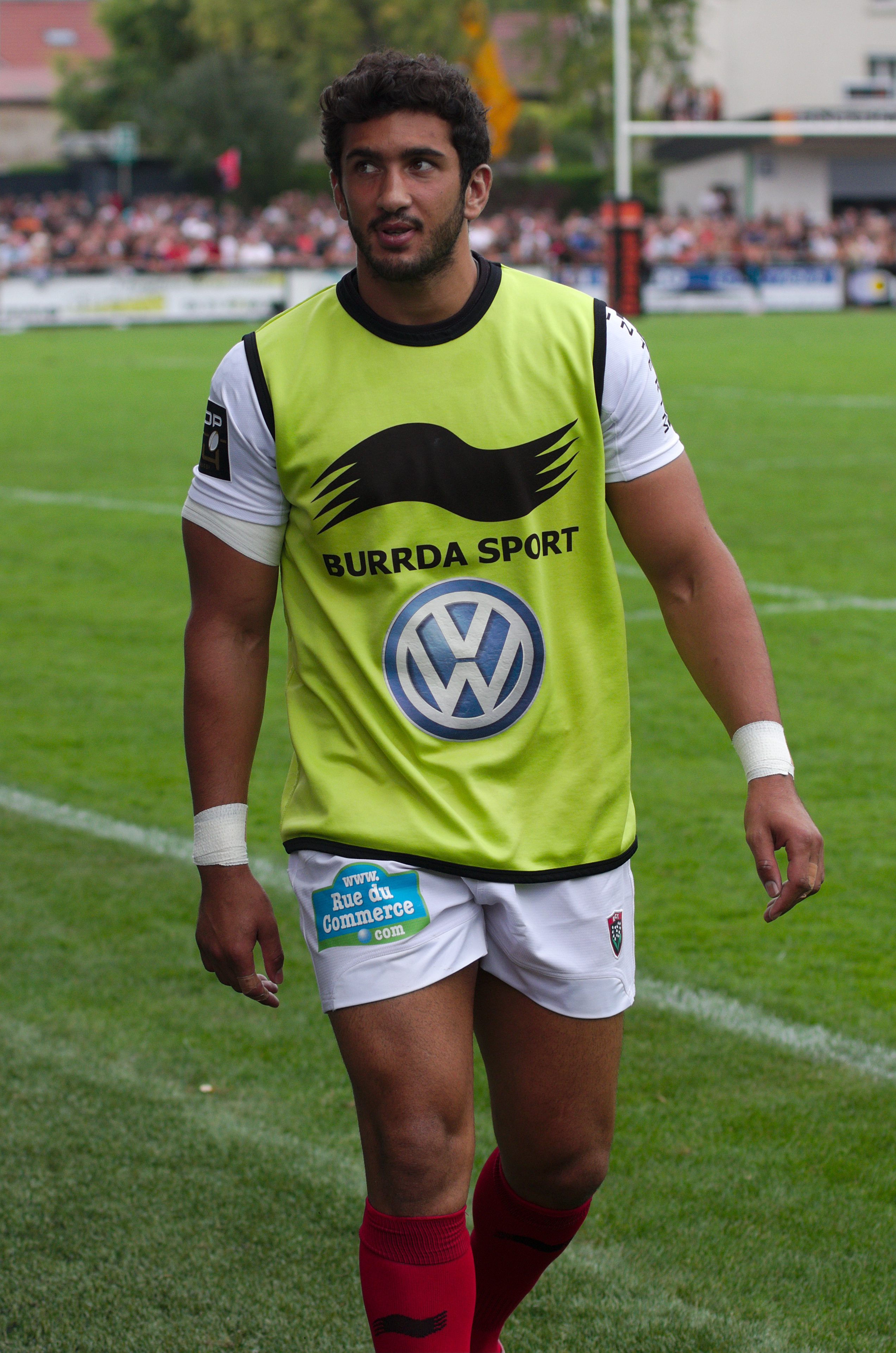 USO - RCT - 28-09-2013 - Stade Mathon - Maxime Mermoz